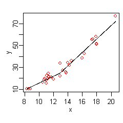 Plot of a simple Friedman's Multivariate Adaptive Splines Regression (MARS) model with one independent variable.